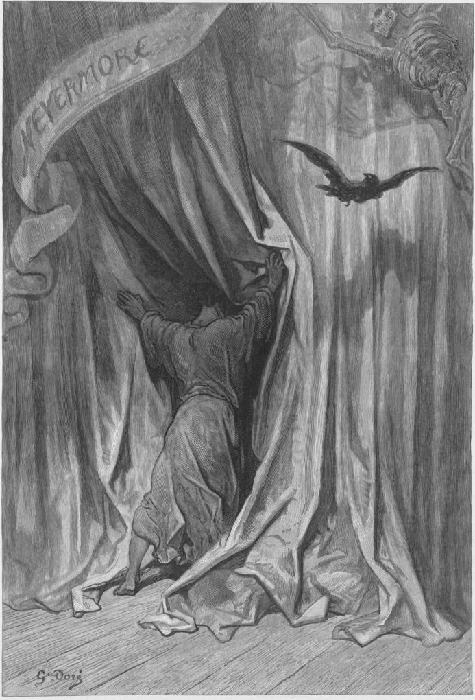 pg 18 in PDF of an 1884 illustrated publication of The Raven.